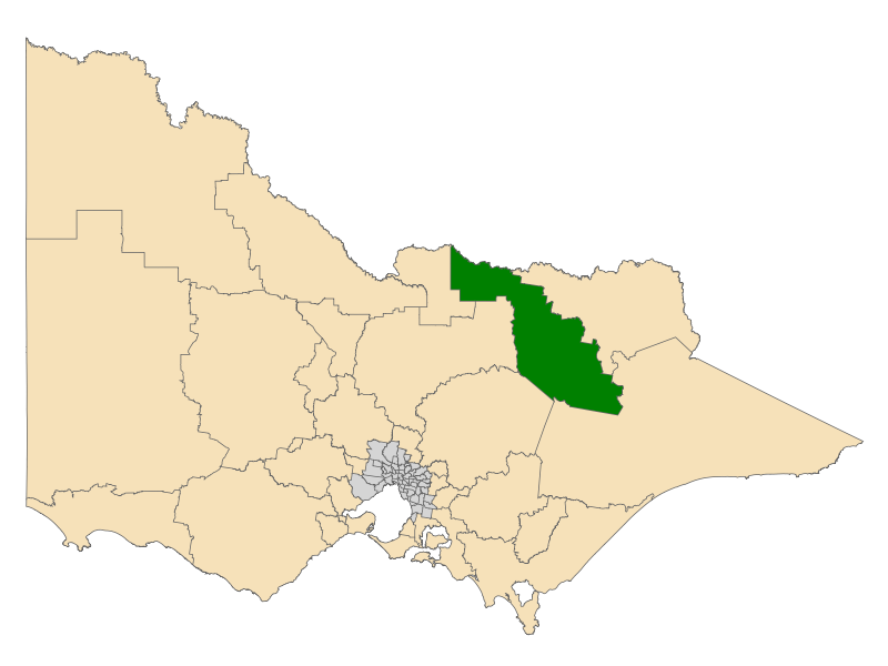 Location of the Electoral District of Ovens Valley (dark green) in the state of Victoria, Australia. These boundaries were used for the Victorian state election on 29 November 2014.